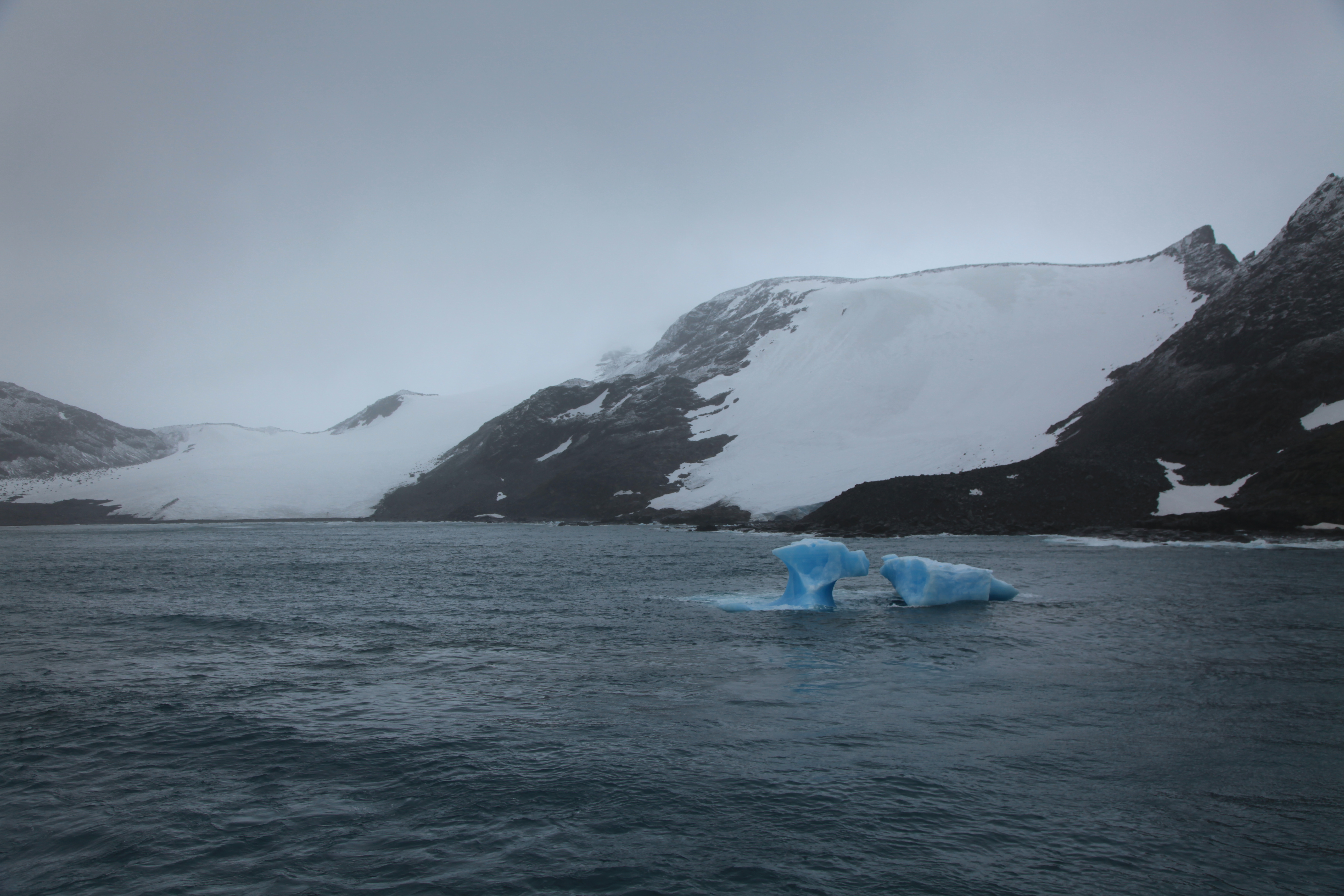 Bergy Bits at Shingle Cove, South Orkney Islands